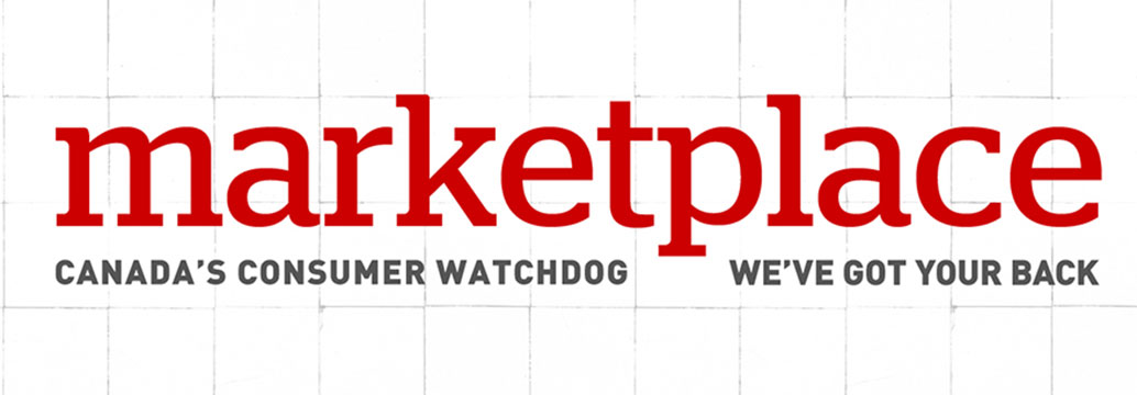 the show's logo in 2013-2014.